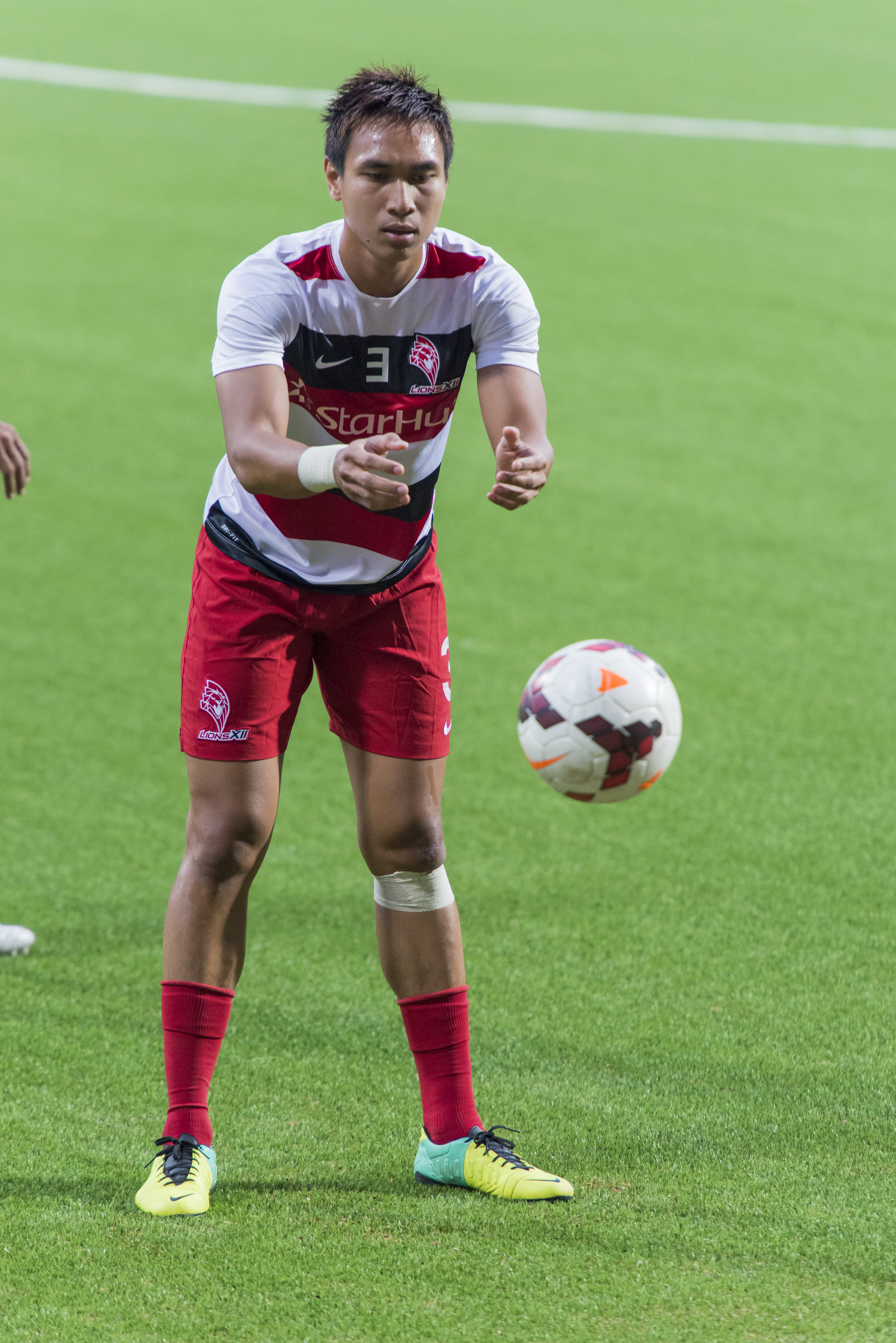 afiq yunos 2014 lionsxii msl versus kelantan fa